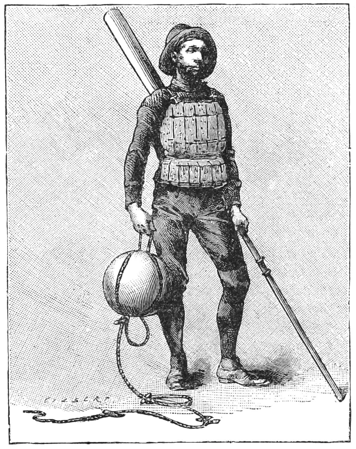 Cork jacket and life buoy